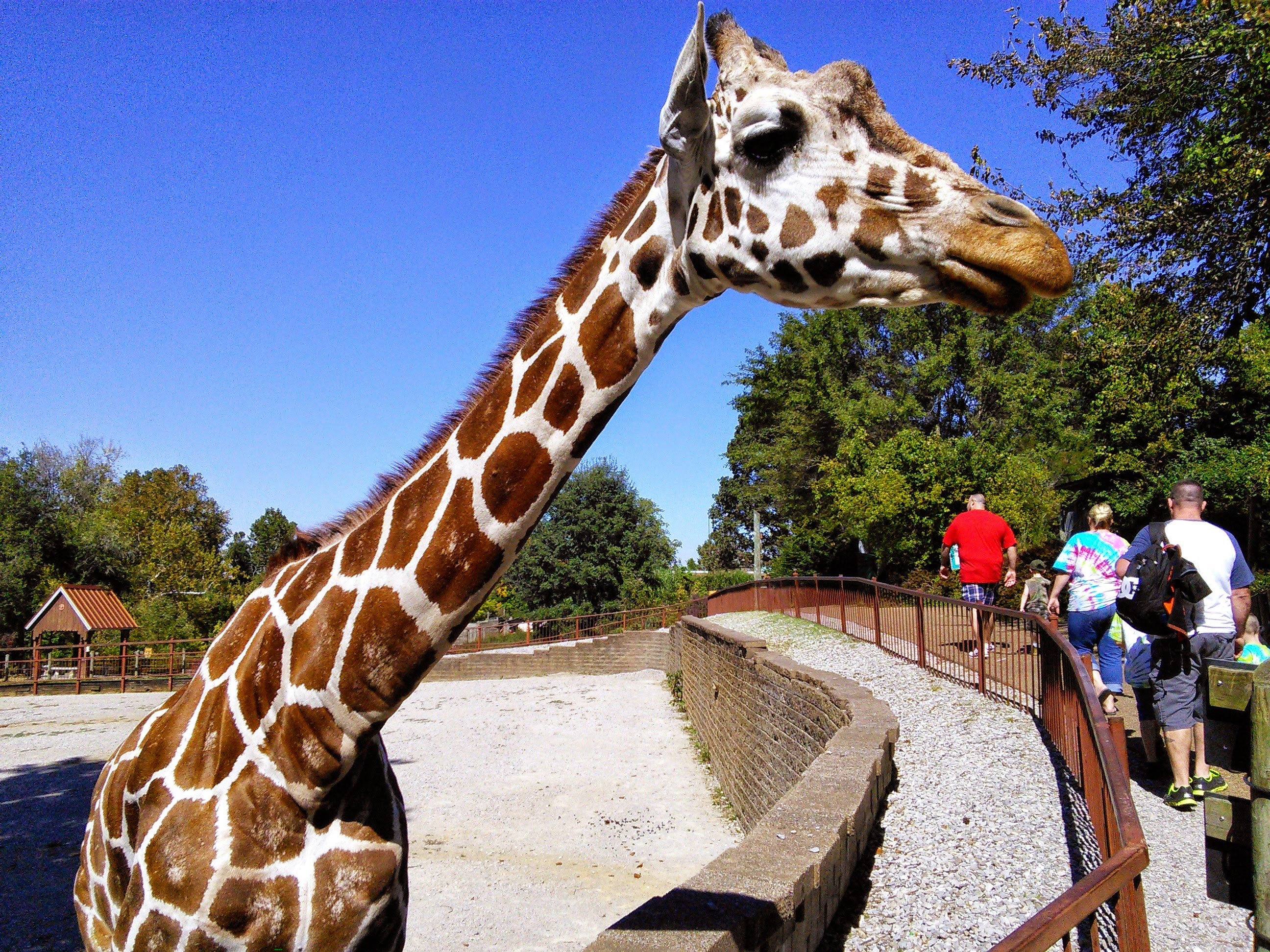 Giraffe at the Mesker Park Zoo, in Evansville, Indiana.